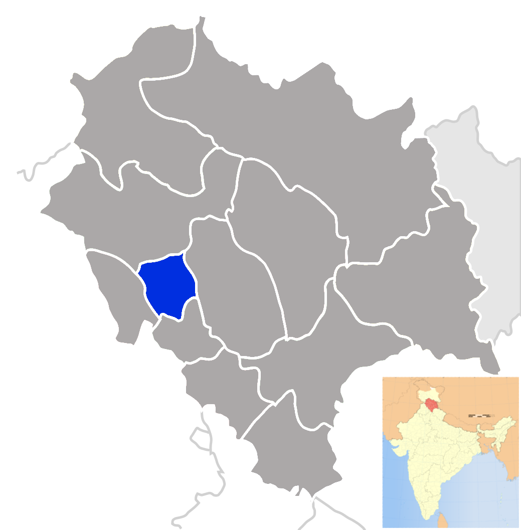 Hamirpur district of Himachal Pradesh